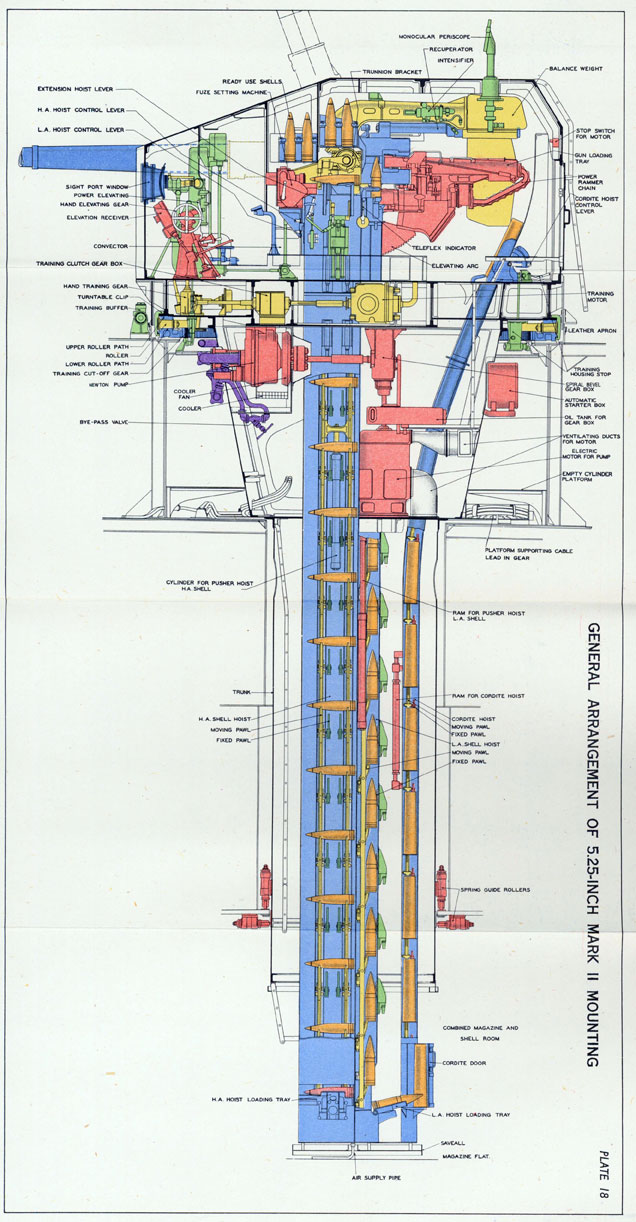 Left elevation diagram showing British QF 5.25 inch naval gun on Mk II mounting, as deployed on Dido class light cruisers.